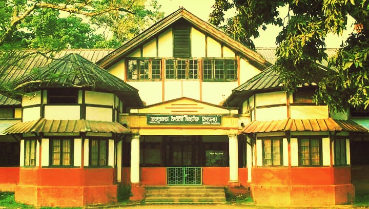 Bezbaruah Higher Secondary School - Golaghat অসমীয়া: গোলাঘাট বেজবৰুৱা উচ্চতৰ মাধ্যমিক বিদ্যালয়